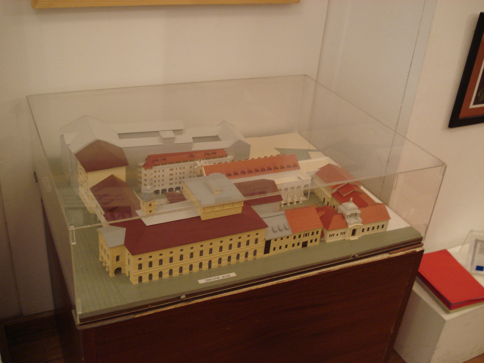 Maqette of Miskolc National Theatre, Theatre History and Actor Museum, Miskolc, Hungary